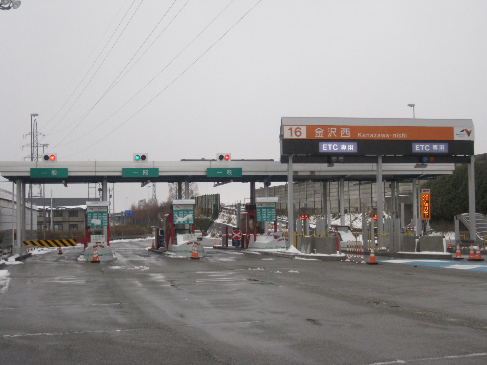 Kanazawa-nishi IC (Hokuriku Expressway)